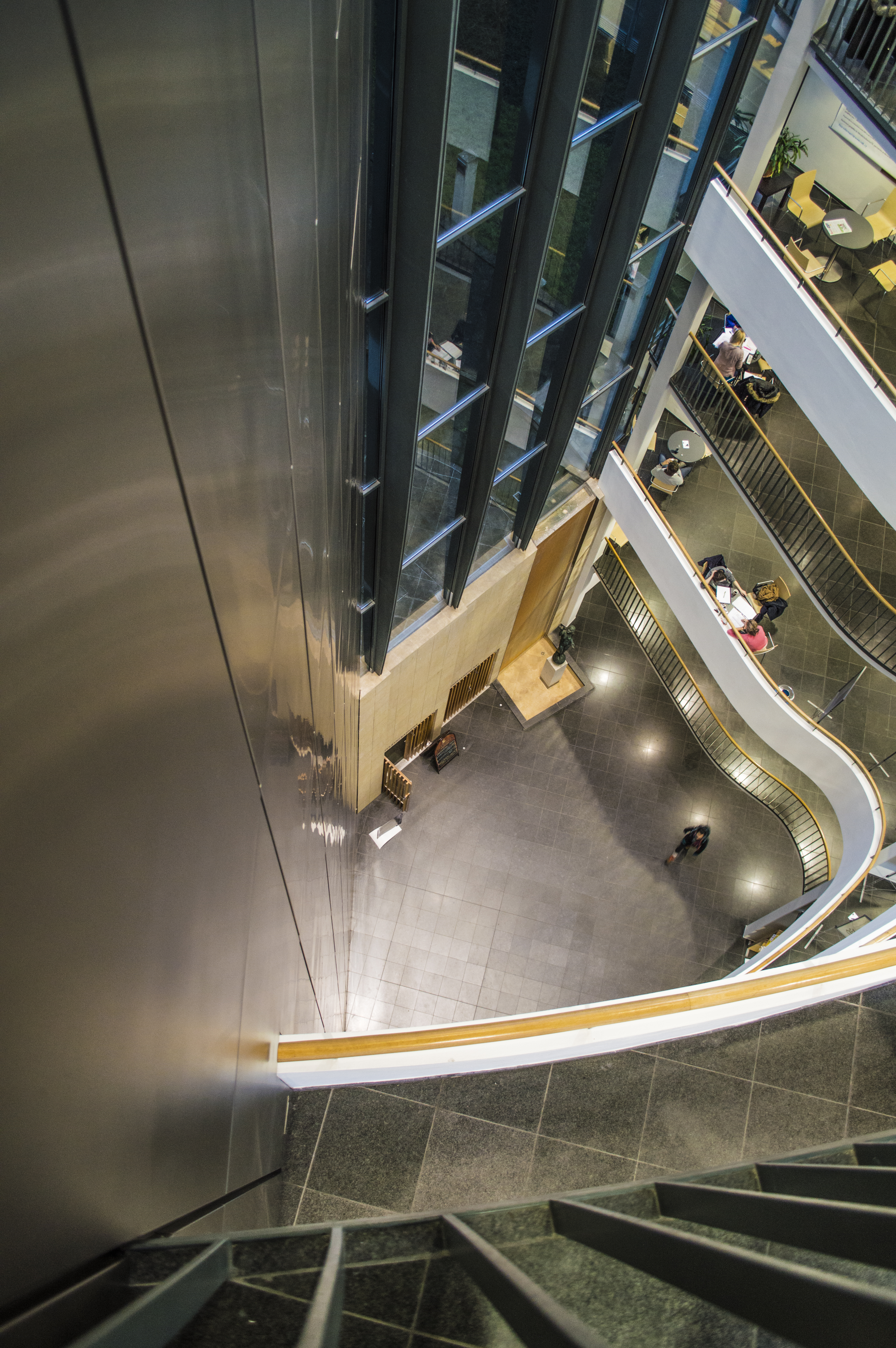 Moravian Library - interior from 6th floor